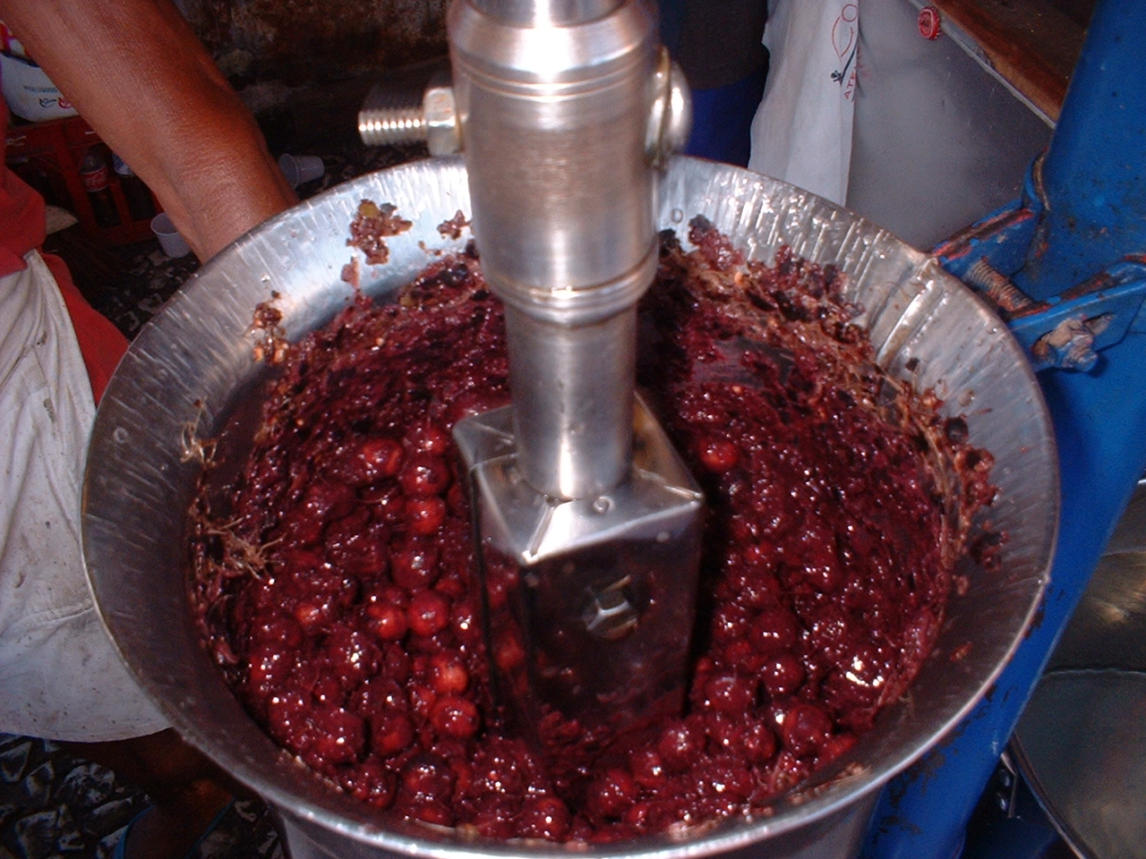 Açai (palm berry) juice extractor in the streets of Belém, next to Ver-o-Peso market